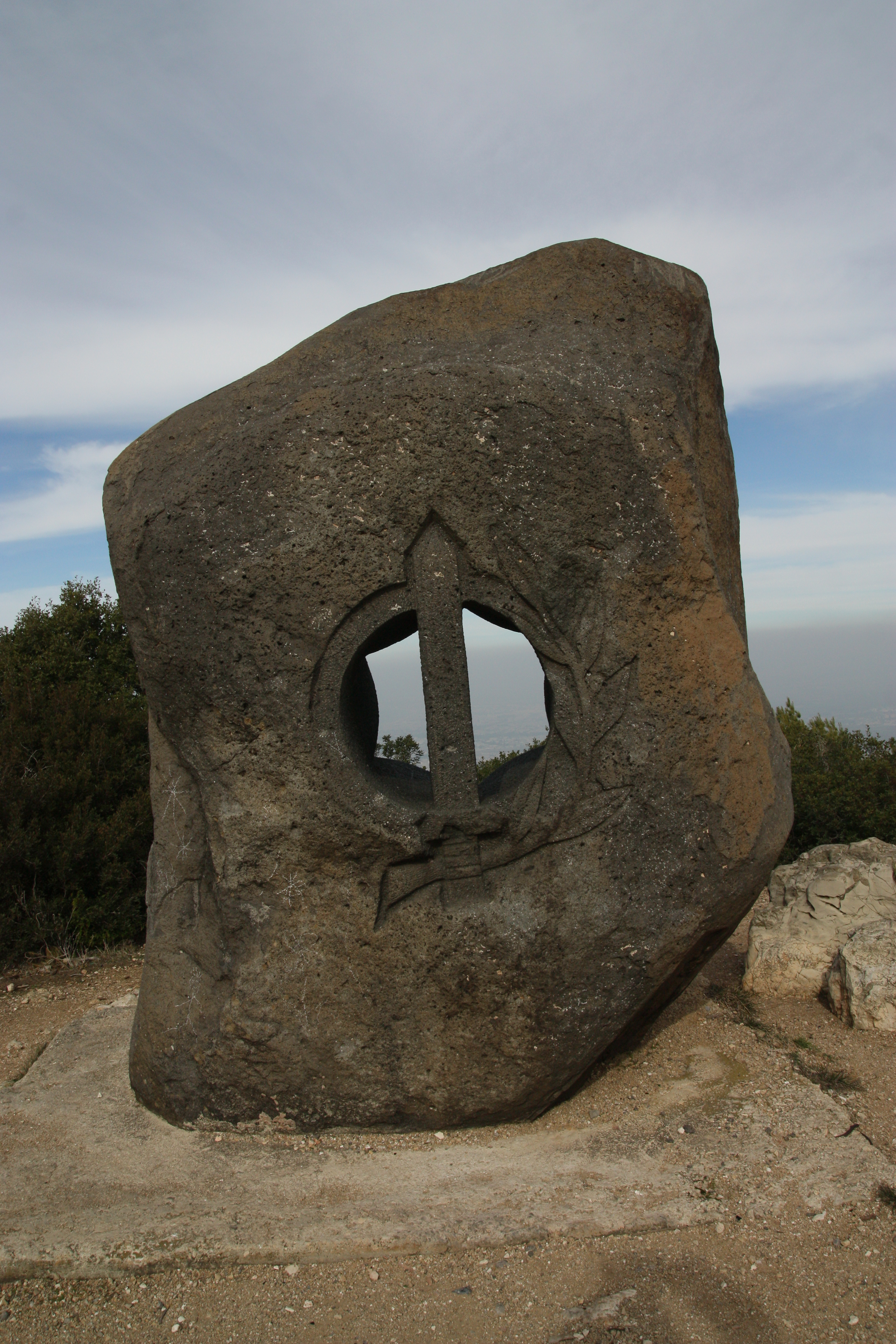 Mount Carmel